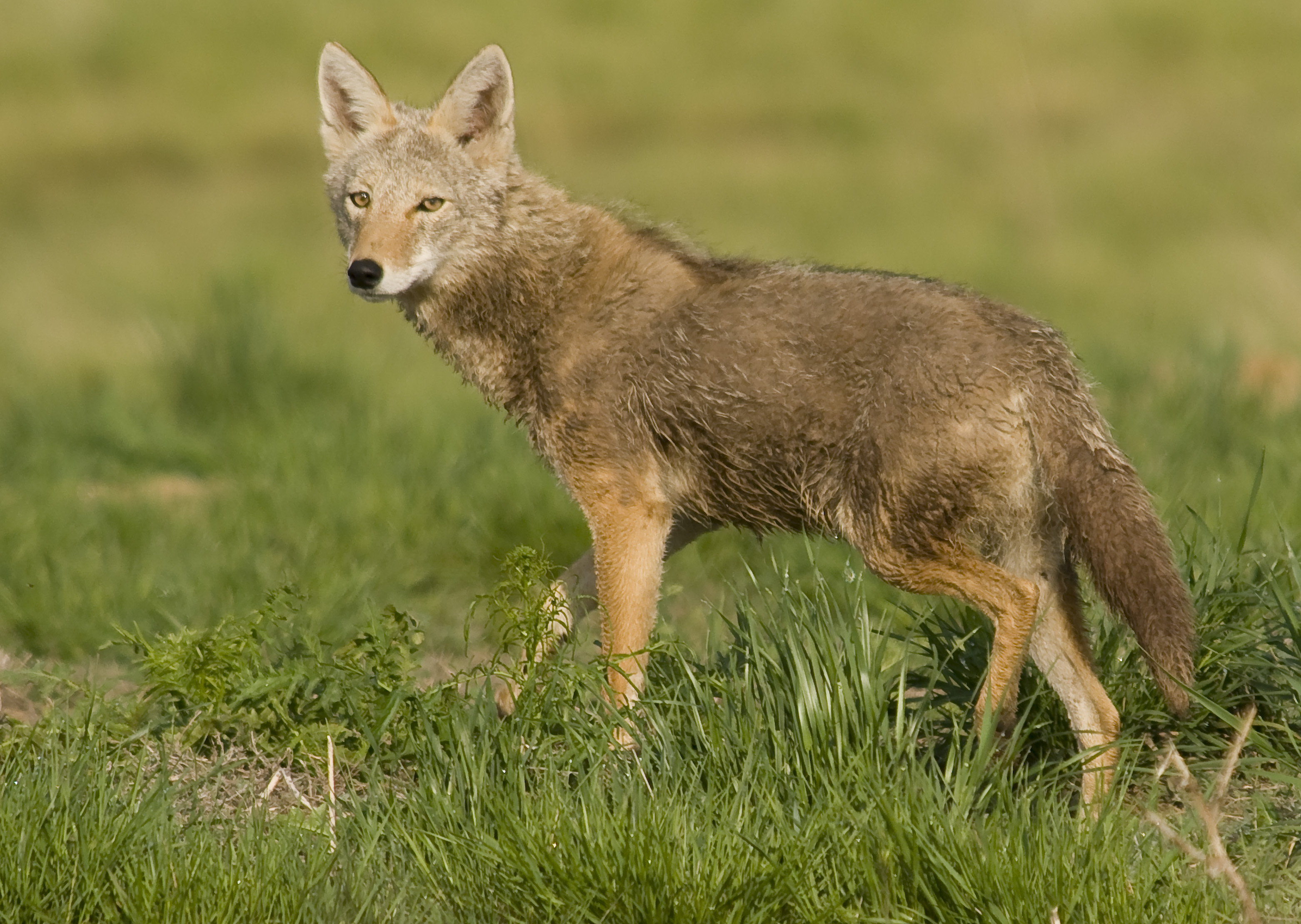 Coyotes are known for their ability to adapt to different habitats. They are found in the prairie, forests, mountains, tropical areas, the desert, and even large cities. Photo Credit: Rich Keen / DPRA